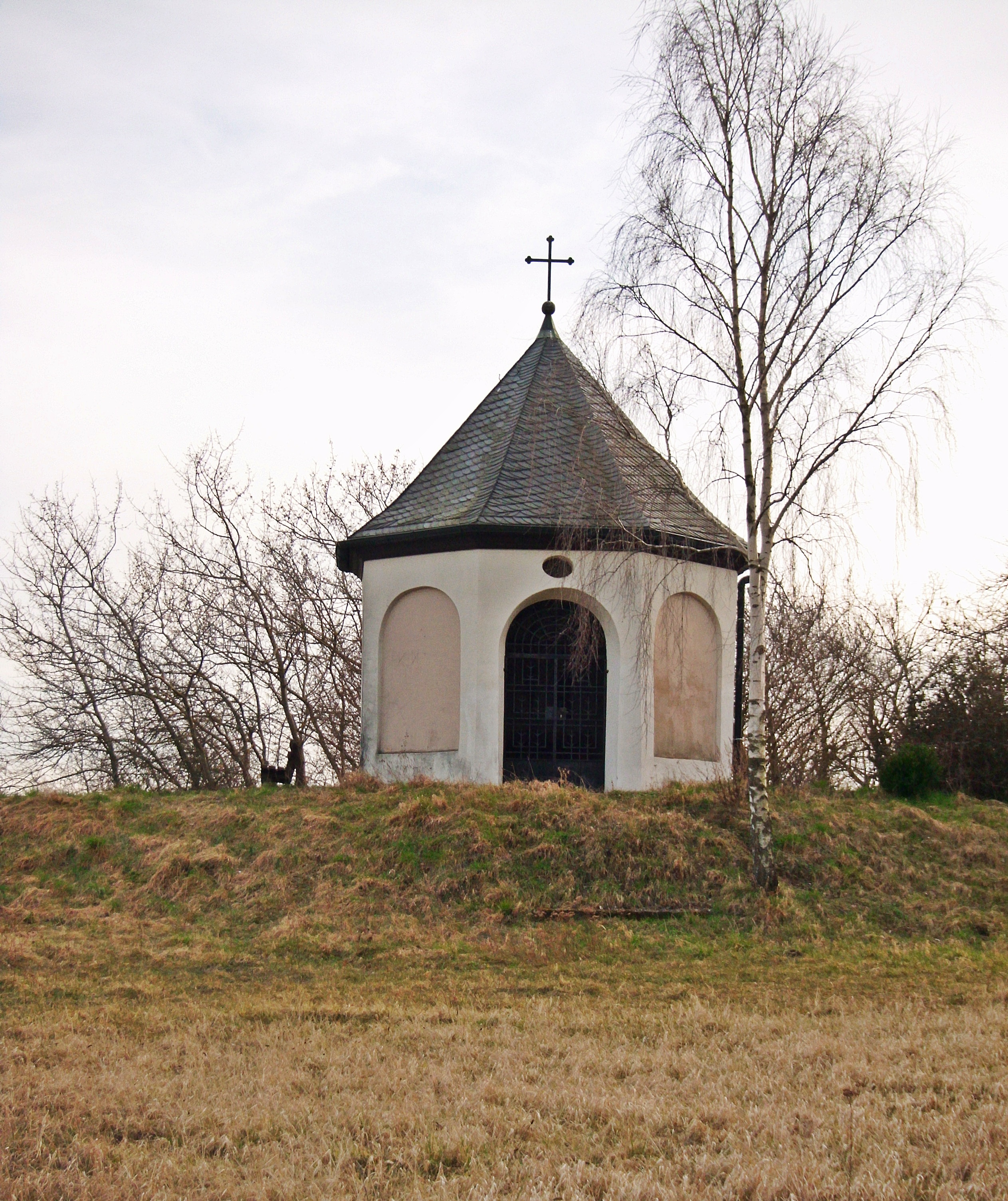 Palmberg, Laumersheim, Hl.-Kreuz-Kapelle